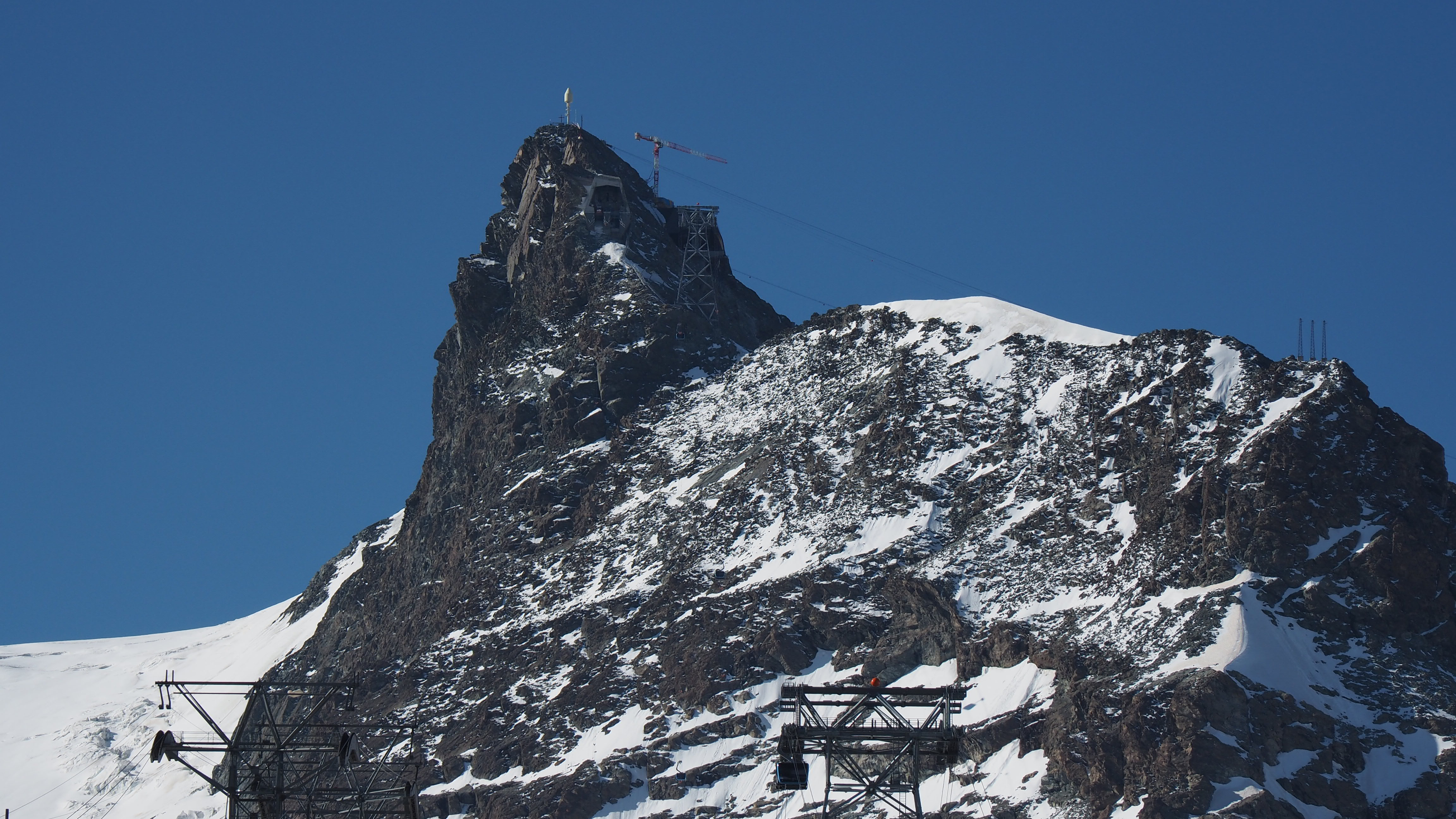 Klein Matterhorn seen from Trockener Steg (Jul. 2019)